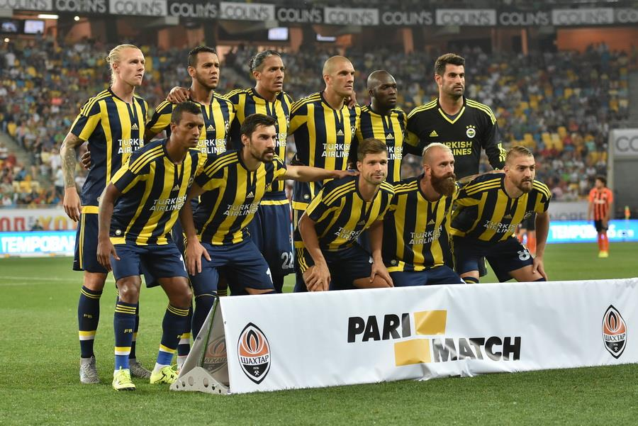 Shakhtar Donetsk - Fenerbahçe 05 August 2015 Champions League Third qualifying round / Fenerbahçe SK - List of players: (top row) Simon Kjær, Josef de Souza, Bruno Alves, Fernandão, Moussa Sow, Volkan Demirel, (bottom row) Nani, Şener Özbayraklı, Diego Ribas, Raúl Meireles, Caner Erkin